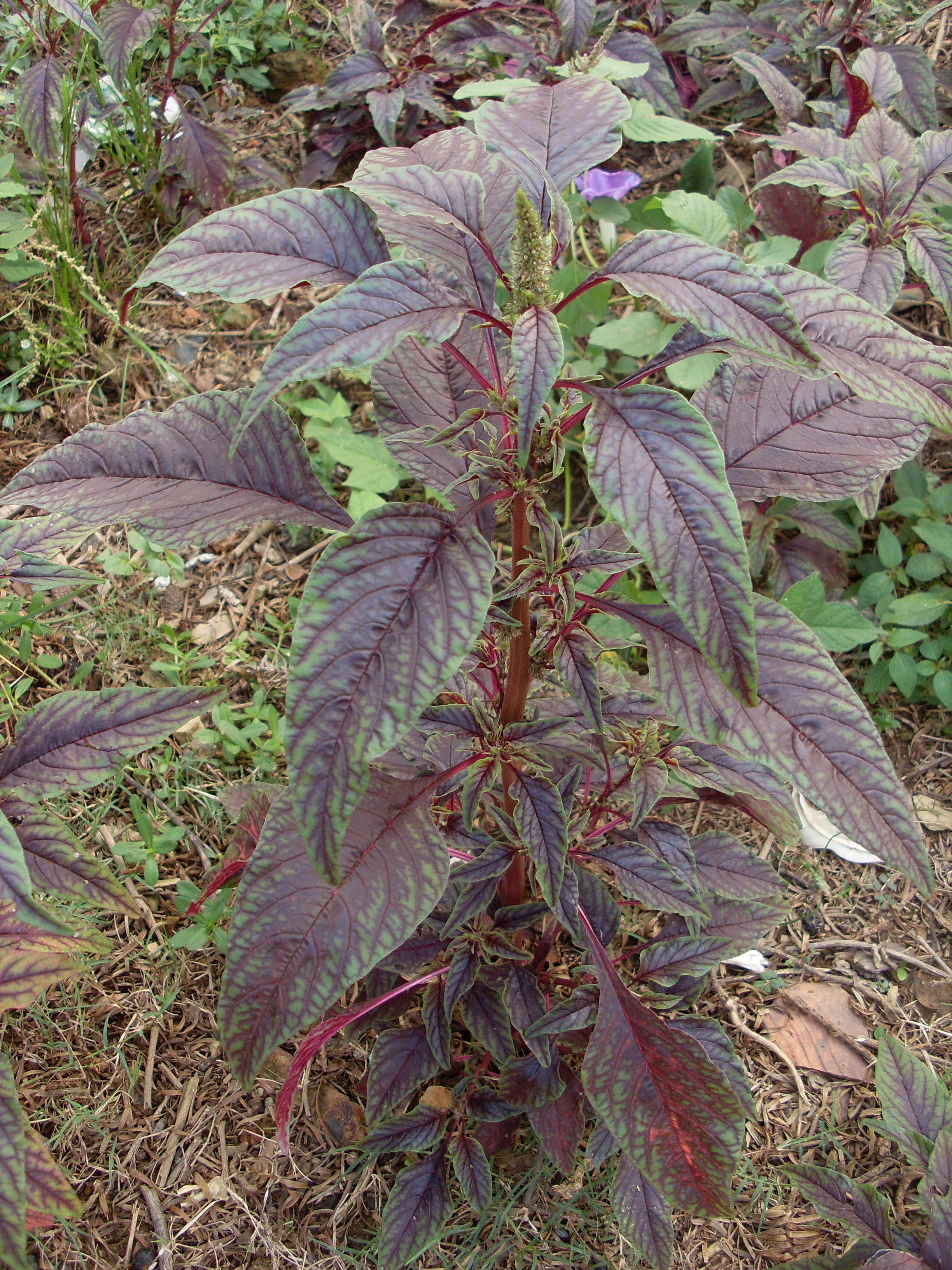 Amaranthus mangostanus L., photo at Xiangtan, Hunan, China